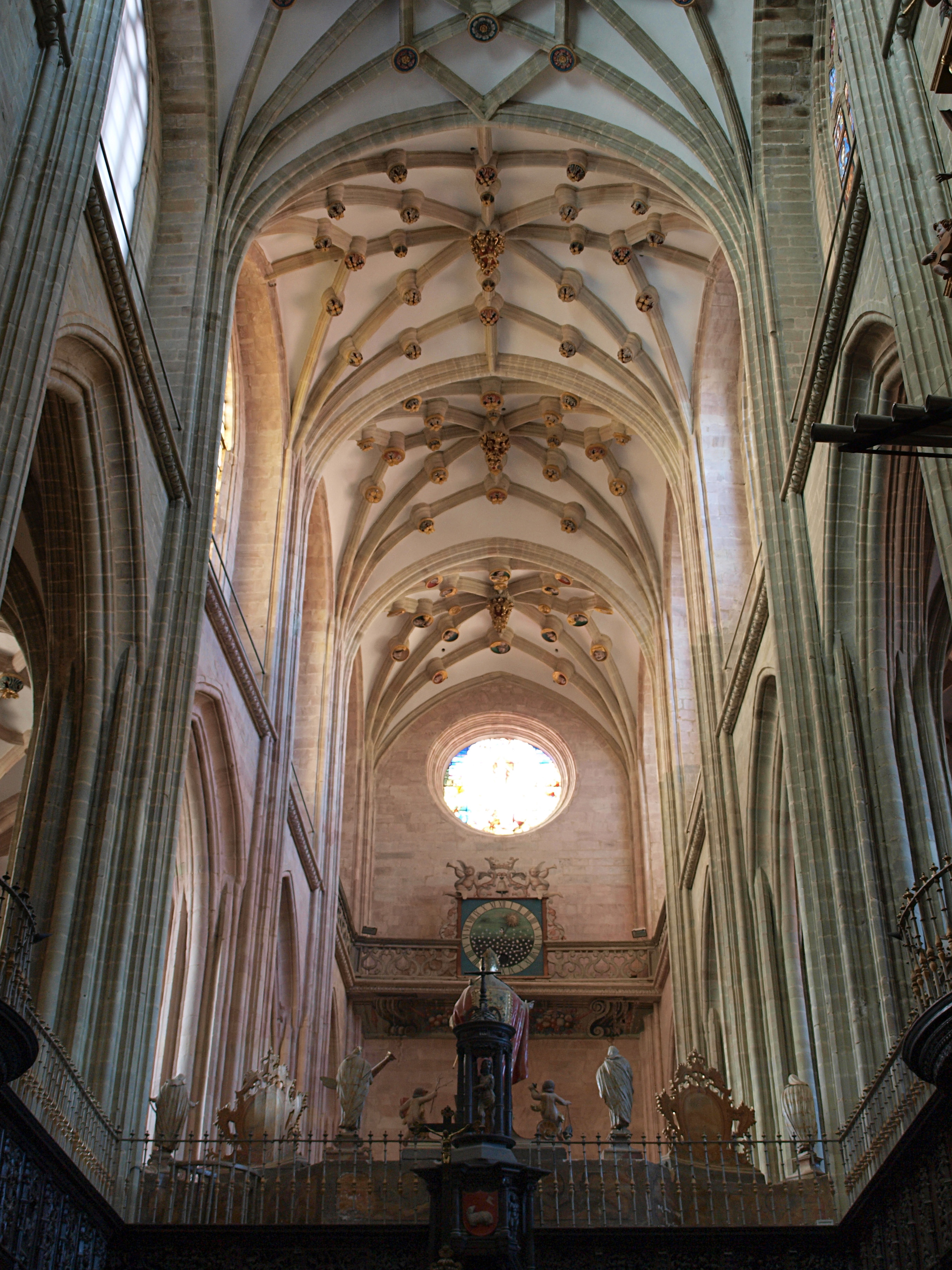 Astorga Cathedral, Astorga (Province of León, Spain).